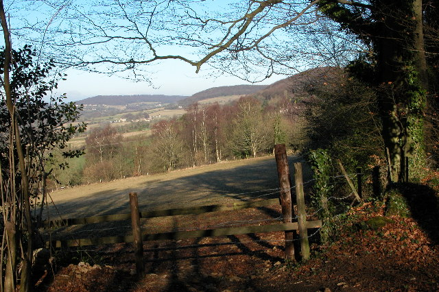 The Frith. The Frith is woodland on a hill between Slad and Painswick, this is a view from The Frith to the north